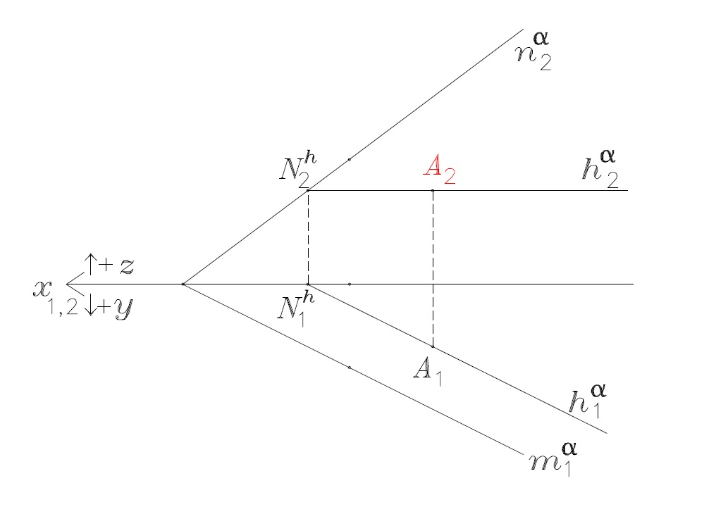 Точка и равнина